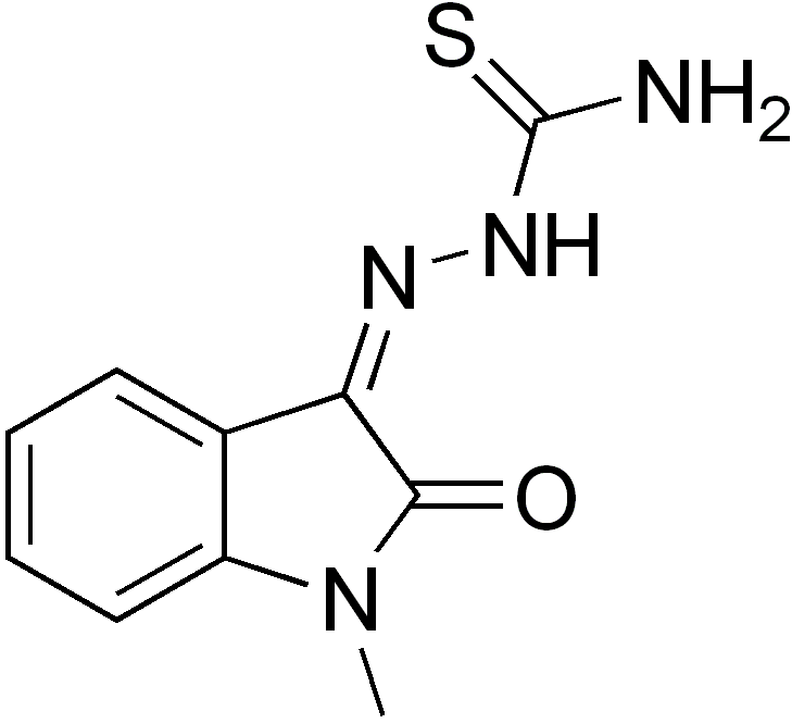 chemical structure of Methisazone